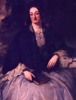 Mary Rosse, Countess of Rosse (née Mary Field) (1813-1885), British amateur astronomer and pioneering photographer